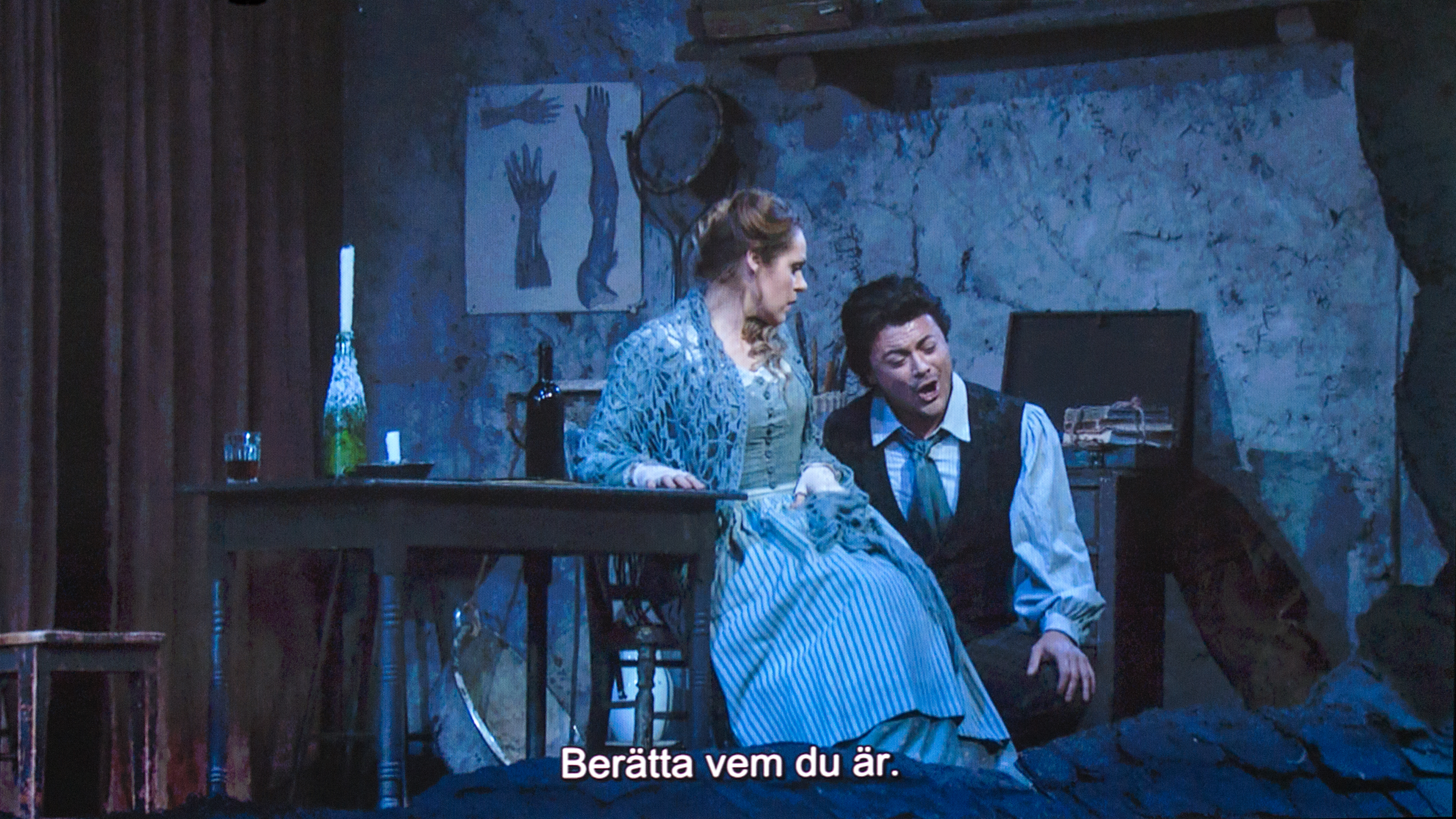 La Bohème from the Metropolitan Opera April 2014